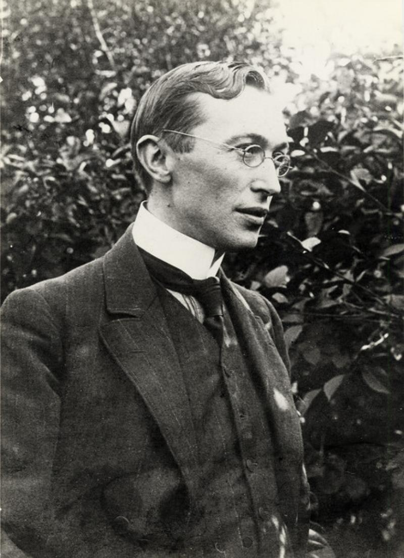 Herman Teirlinck (1879-1967), Flemish writer. Photograph (1905)